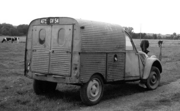 Citroën 2CV AZU. author